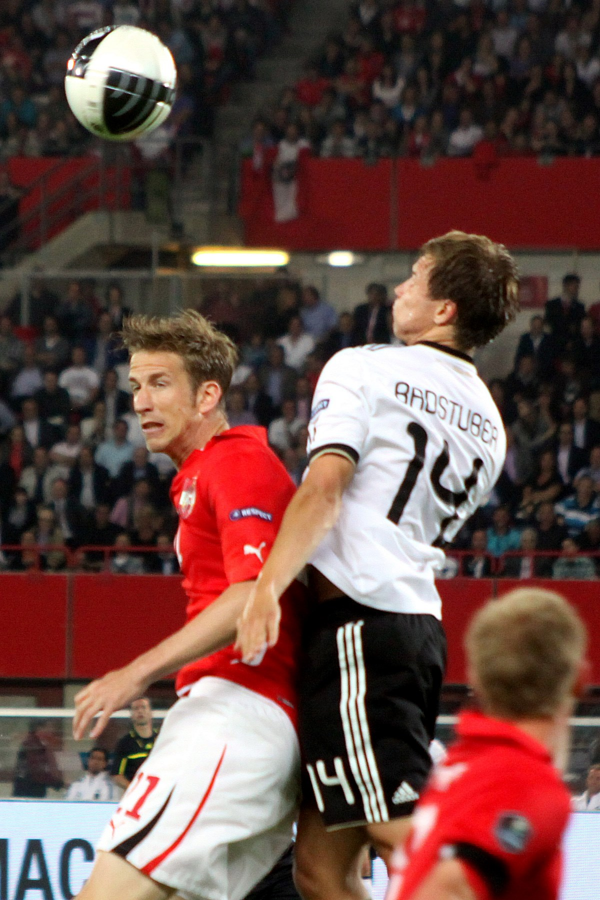 Qualifying for the UEFA Euro 2012 Austria (red shirt) vs. Germany (white Shirt) 1:2 (0:1) at 2011-06-03 in Vienna (Ernst-Happel-Stadion) — The photo shows (fron left to right): Marc Janko (FC Twente Enschede), Holger Badstuber (FC Bayern München).